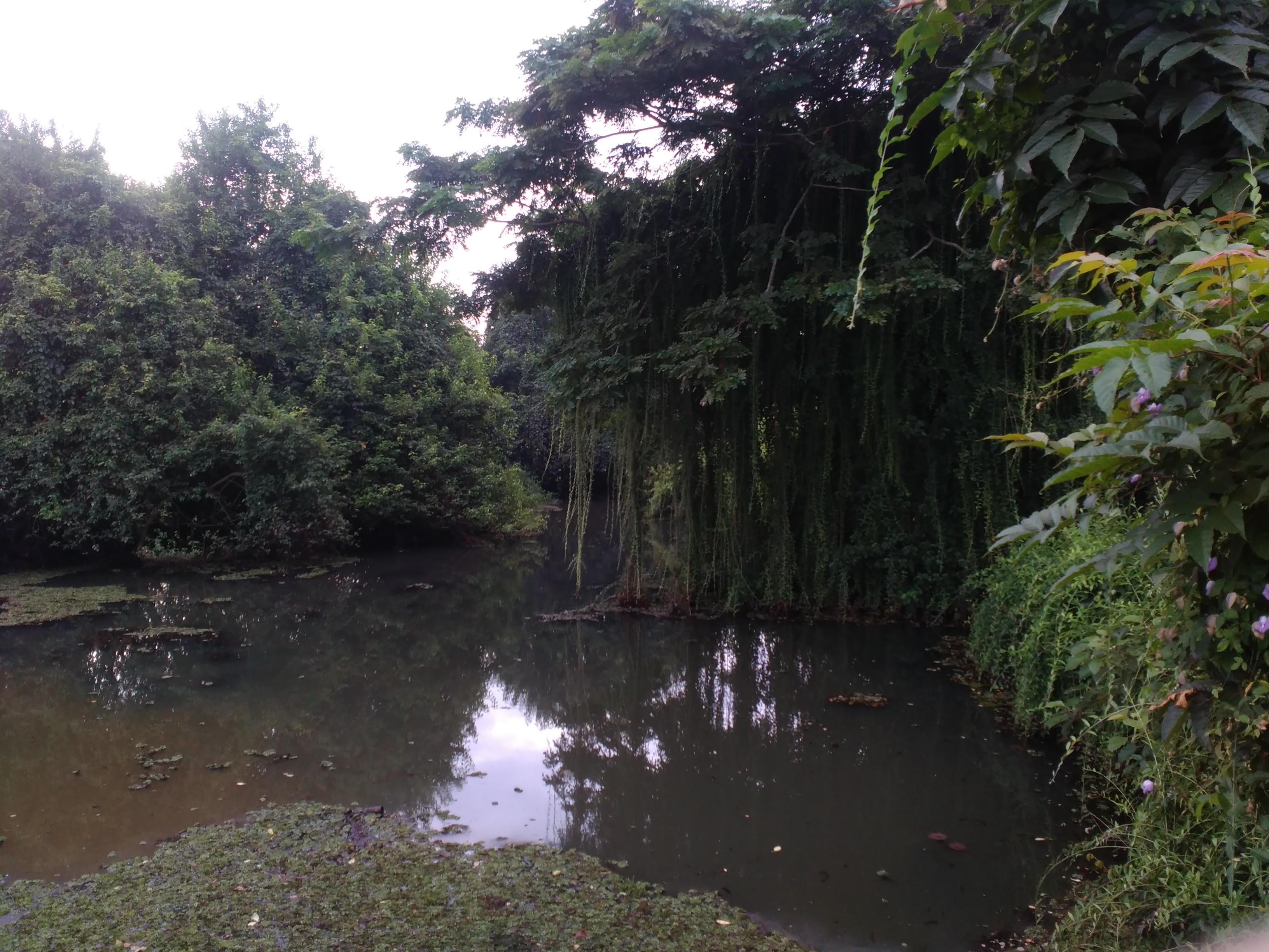 It is a pic from "sarovaram" biopark in Kozhikode, Kerala, India. This place is well known for it's beauty & for the birds that come here.I have taken this pic from a birdwatching contest. Now, this place is being killed by waste dubbed by humans. In early times this was a heaven for new visitors.